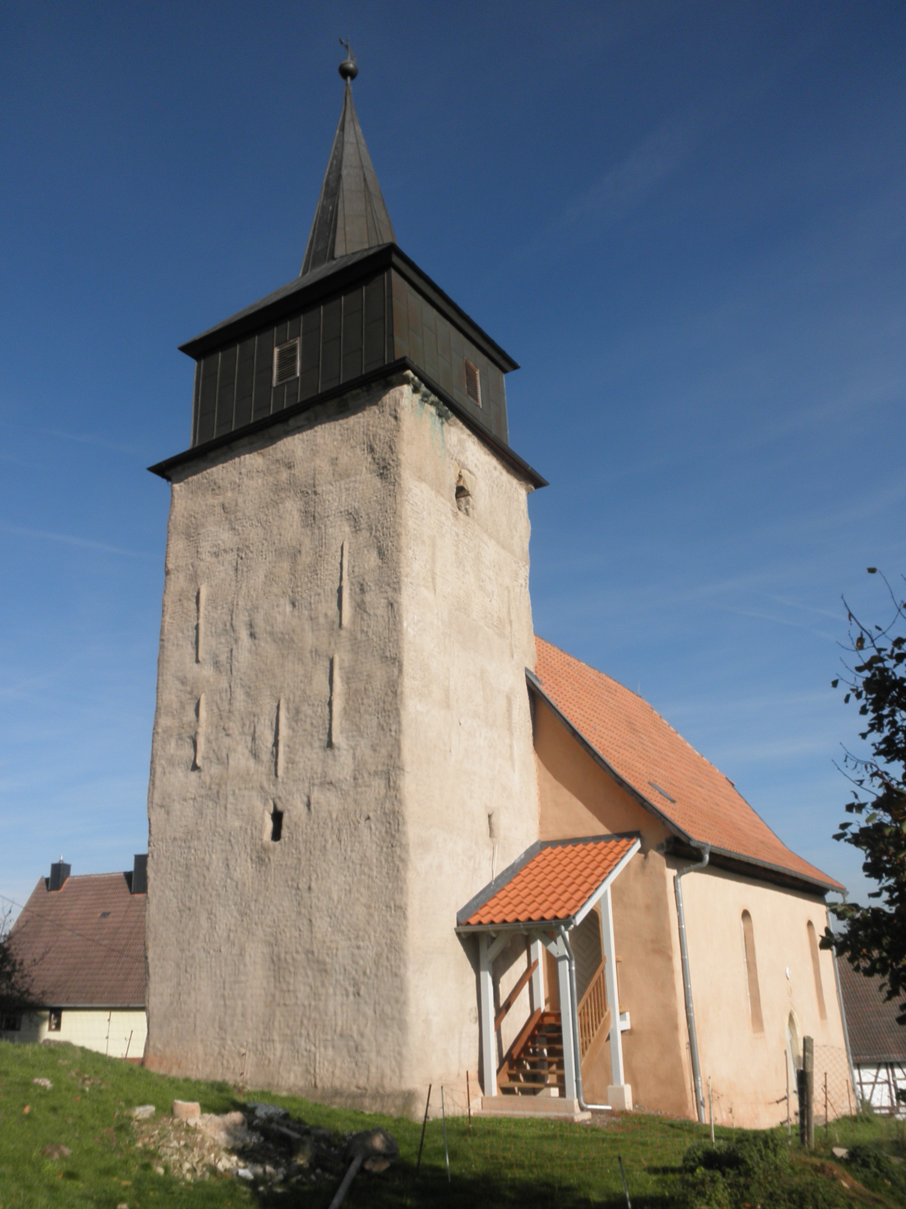 Church in Epschenrode (Sonnenstein) in Thuringia